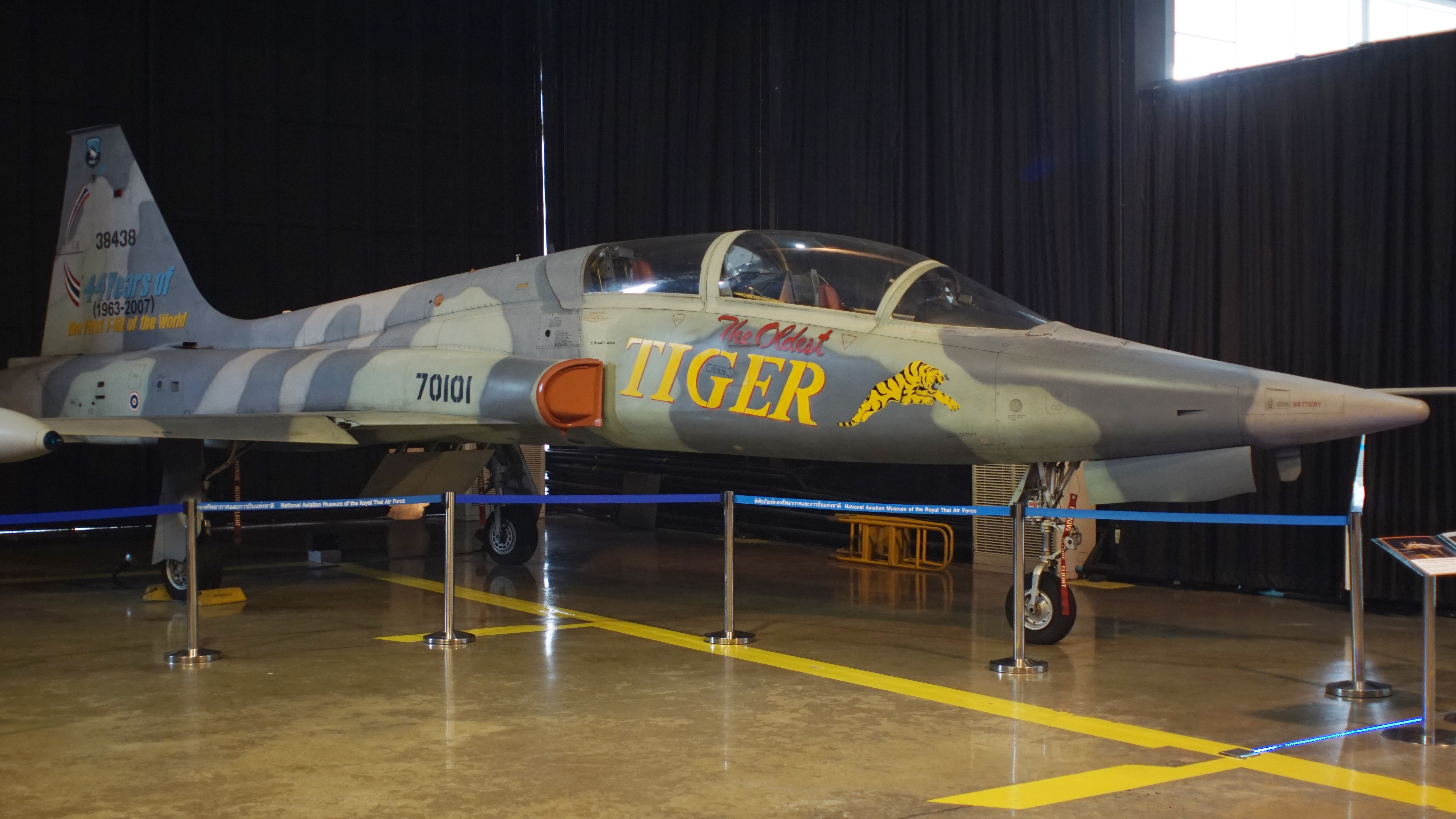 F-5B in Royal Thai Air Force Museum